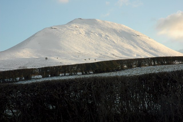 Mynydd Troed in snow Mynydd Troed a summit in the Black Mountains which is just under 2000ft. Pictured here under a covering of snow from the north.